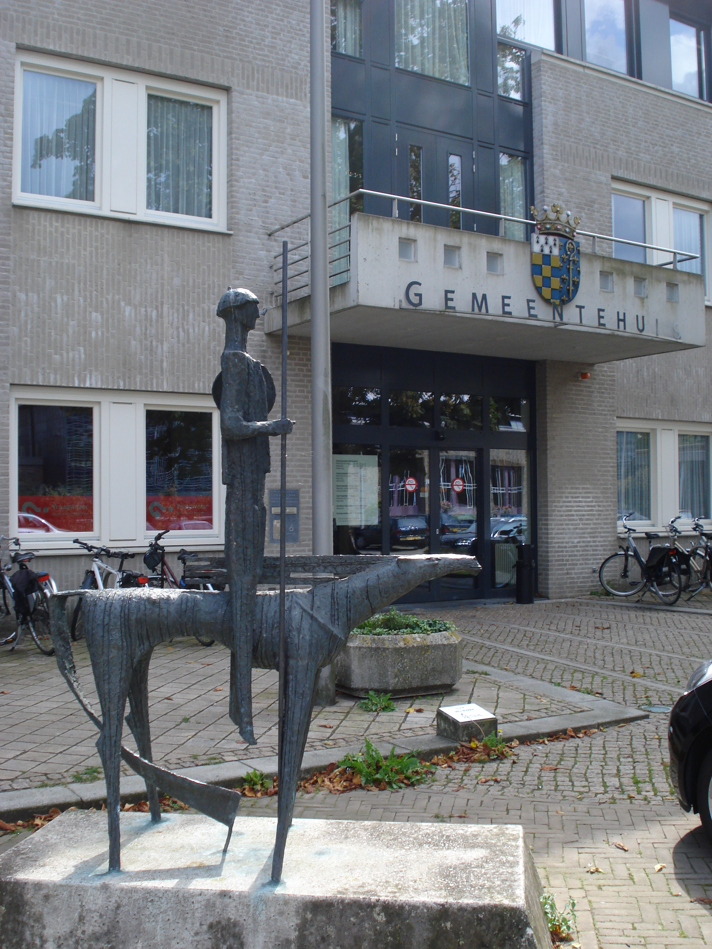 Malden (Gld, NL), sculpture in front of town hall (= from municipality of Heumen : Don Quichote by Jac Maris ).